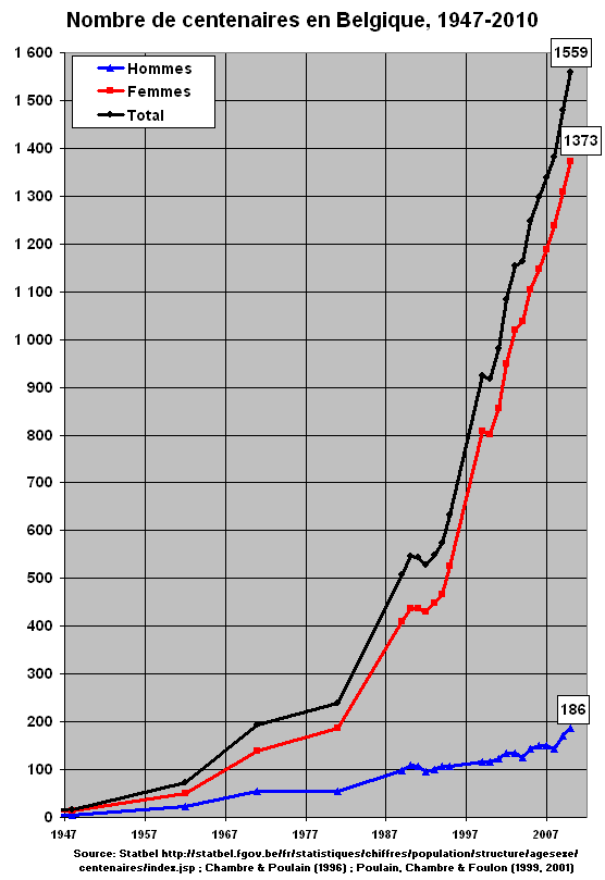 Number of centenarians in Belgium, 1947 to 2010